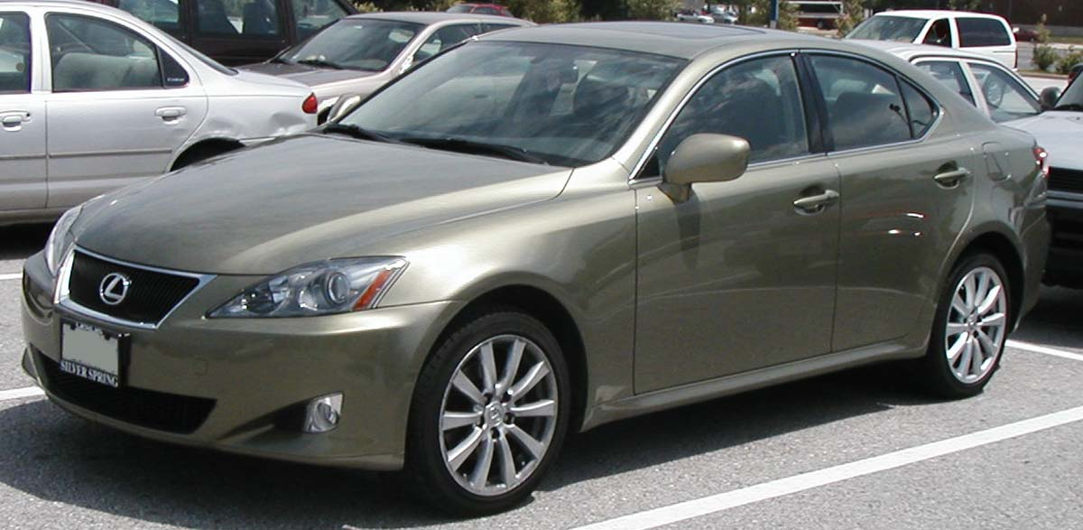 2006 Lexus IS photographed in USA.